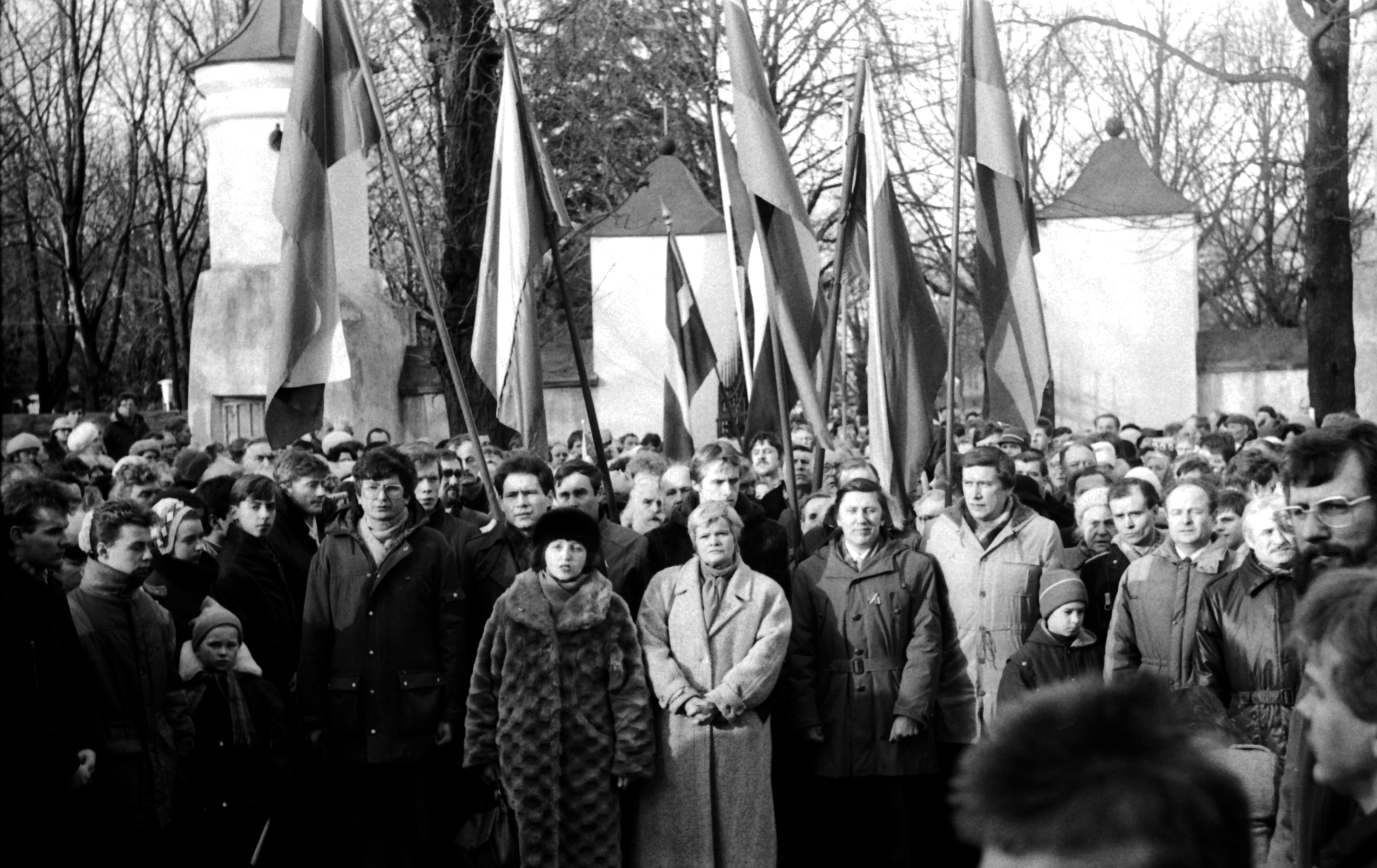 Hoisting of a Lithuanian flag in Šiauliai, 1989-02-16